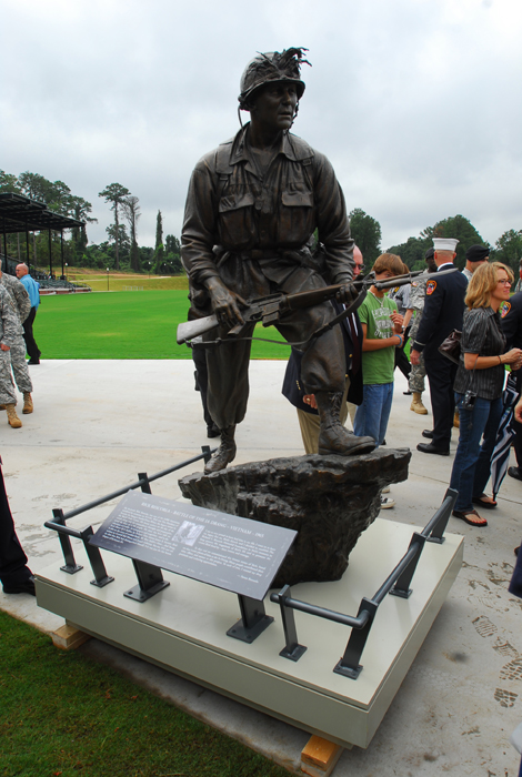 The COL(R) Rick Rescorla statue was unveiled along Heritage Walk at the National Infantry Museum and Soldier Center Thursday. Both the statue and the steel I-beam will be on permanent display outside the museum once the monument is complete next year.